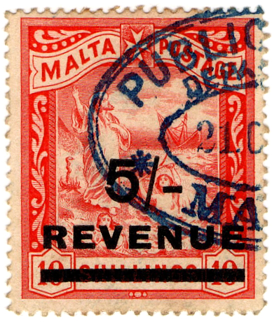 1908 5s on 10s red revenue stamp of Malta